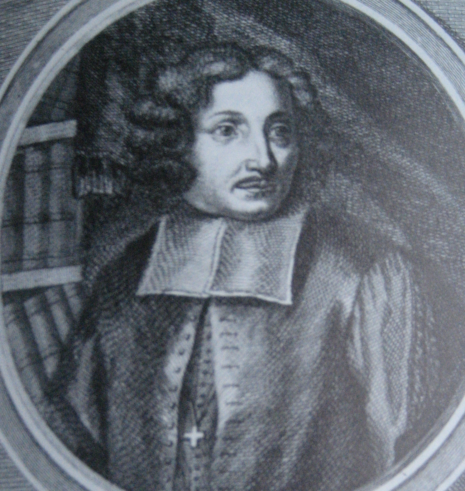 Belgian mathematician Rene de Sluse/Sluze (1622-1685)